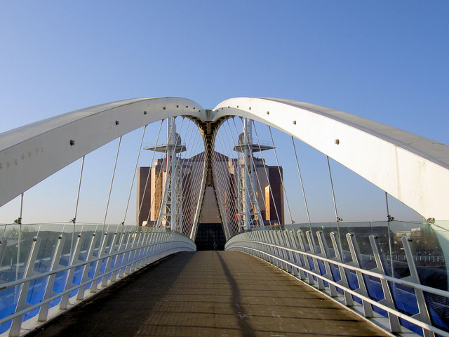 The Lowry footbridge